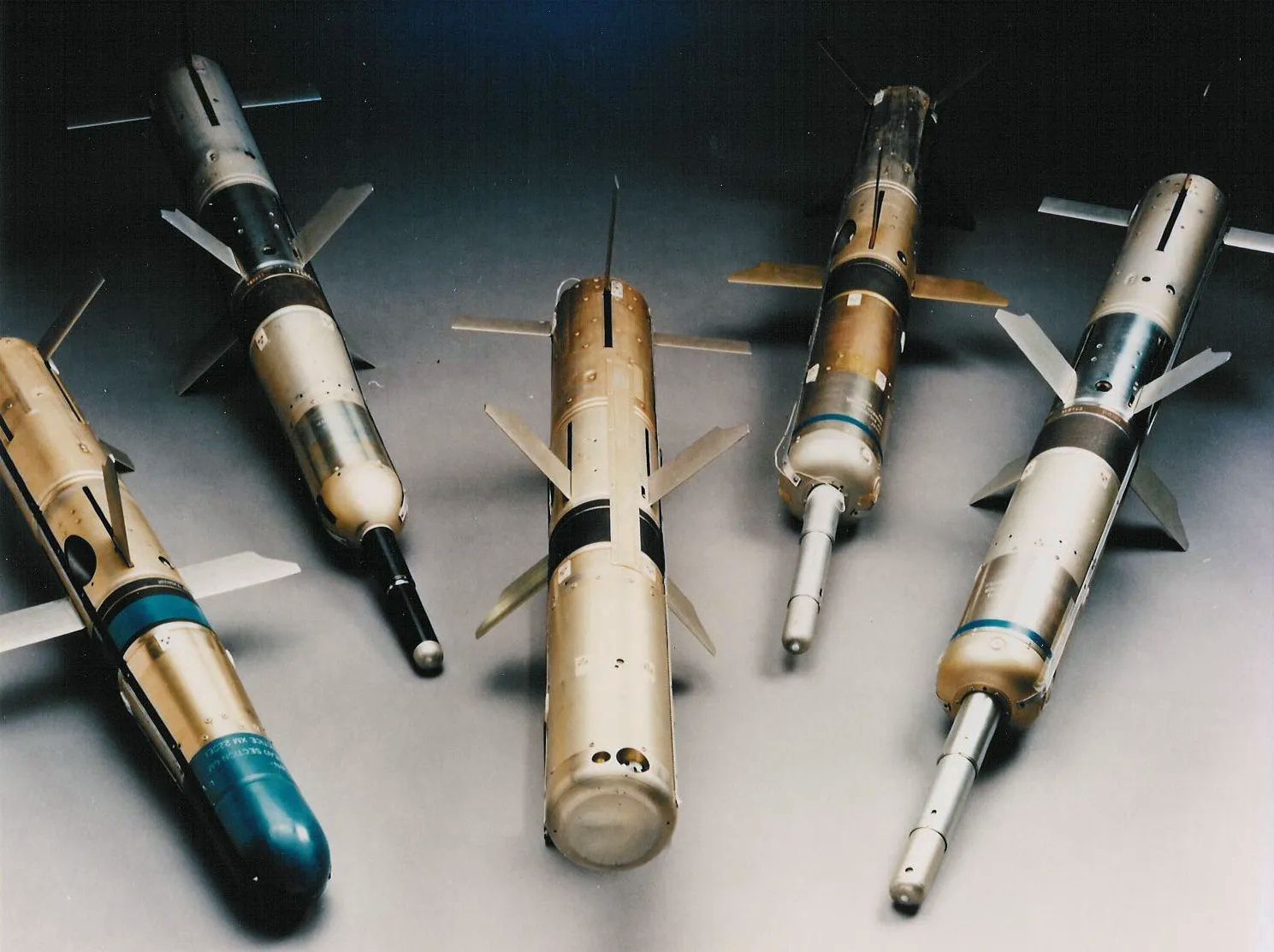 TOW family of missiles